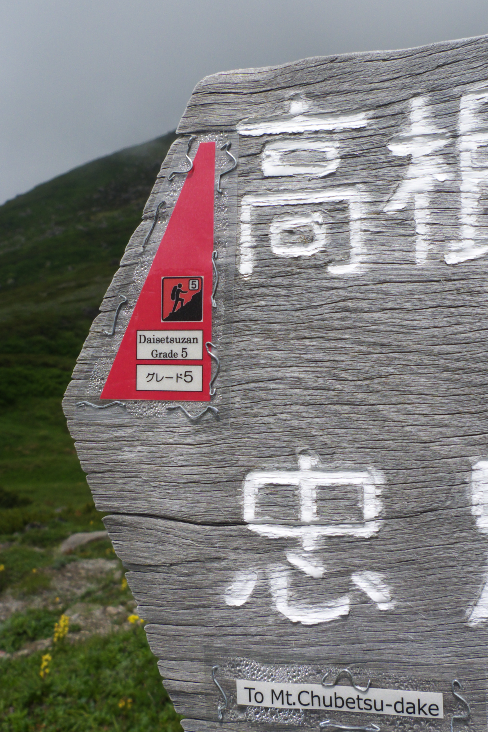 A "Daisetsuzan Grade 5" sign marked on a fingerpost at the Hakuundake Hinangoya (Mount Hakuun Shelter Hut)